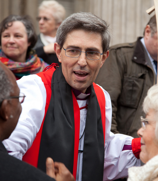 The Right Revd The Lord Bishop of Winchester, Tim Dakin, the 97th Bishop of Winchester, Pictured following his consecration at St Paul's Cathedral, London, in January 2012